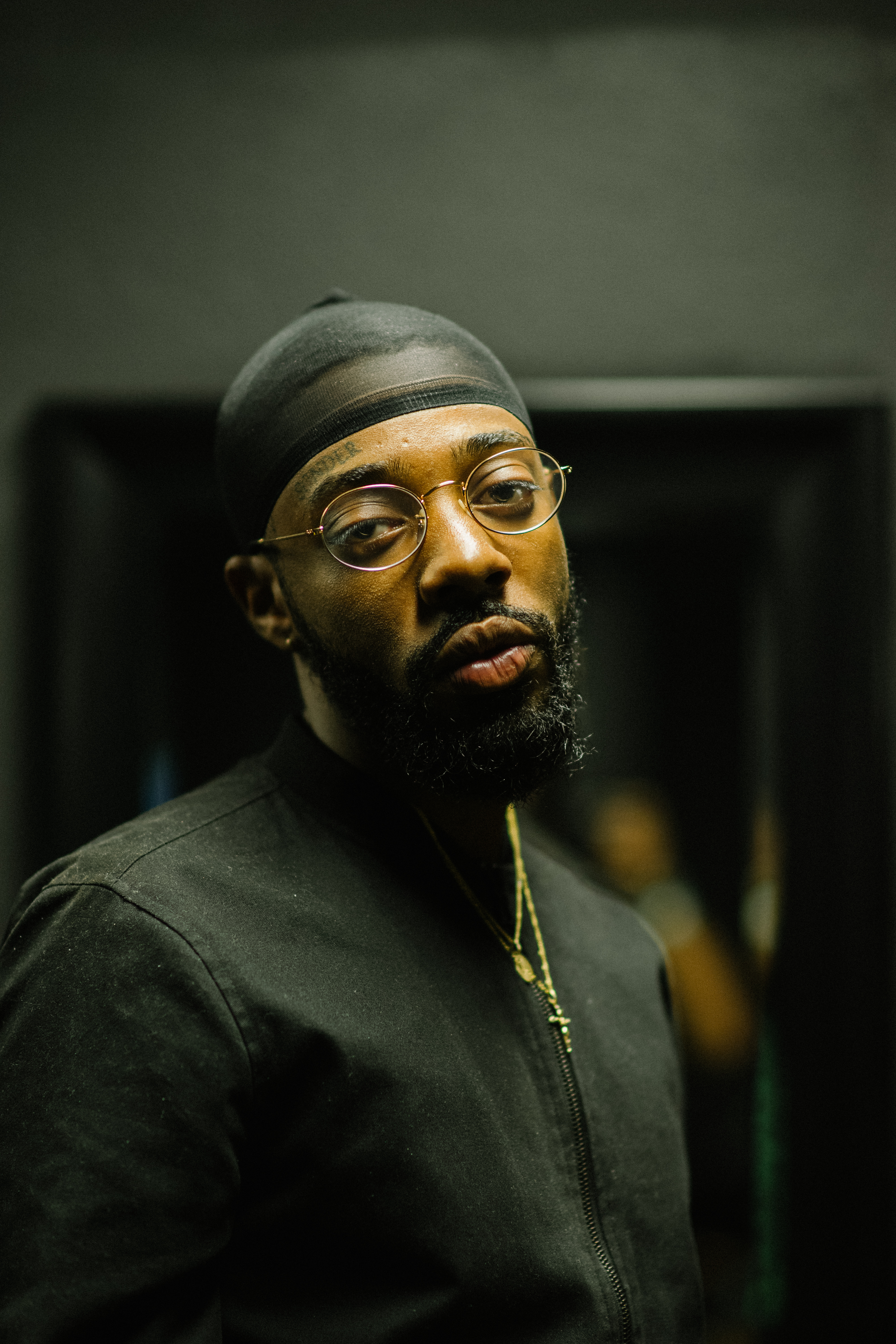 Tour Life